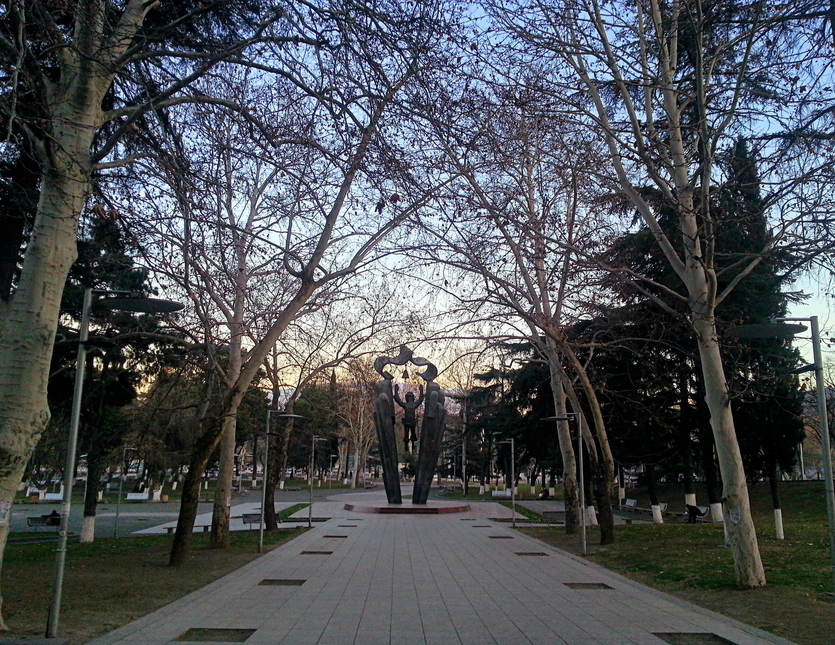 deda ena park (tbilisi. georgia)